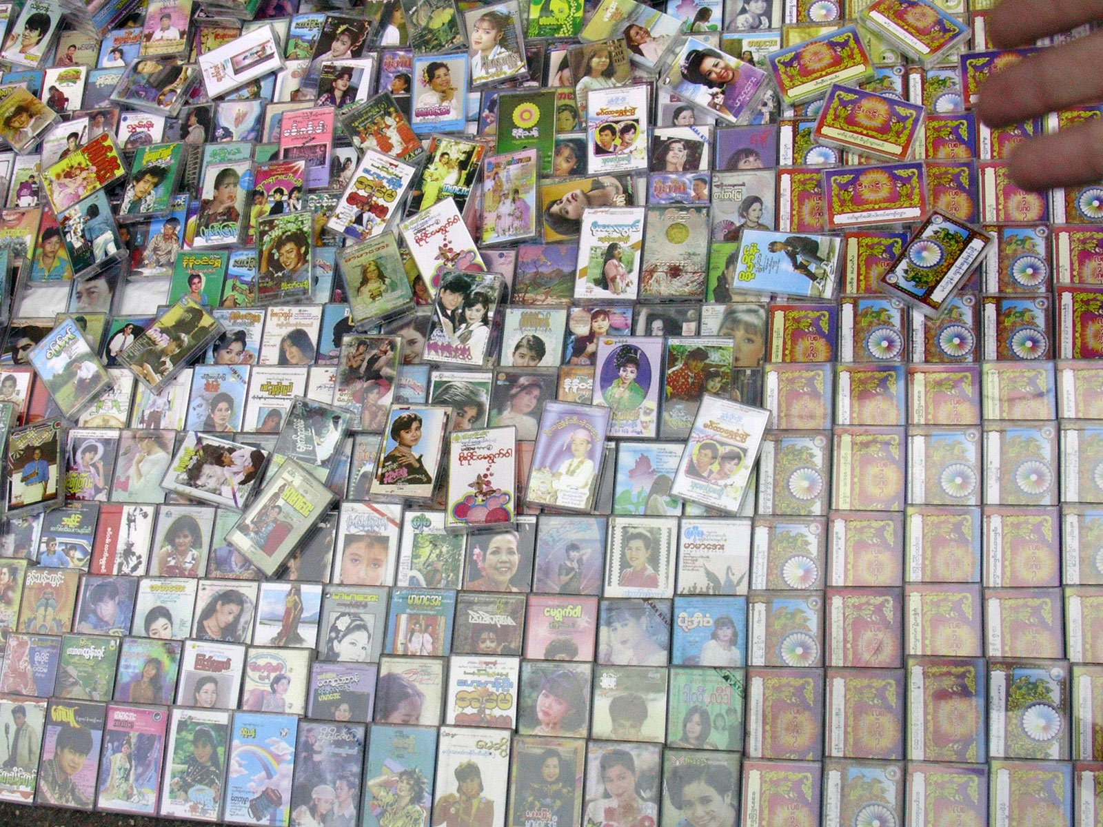 Burmese music microcasette tapes, Yangon, Myanmar